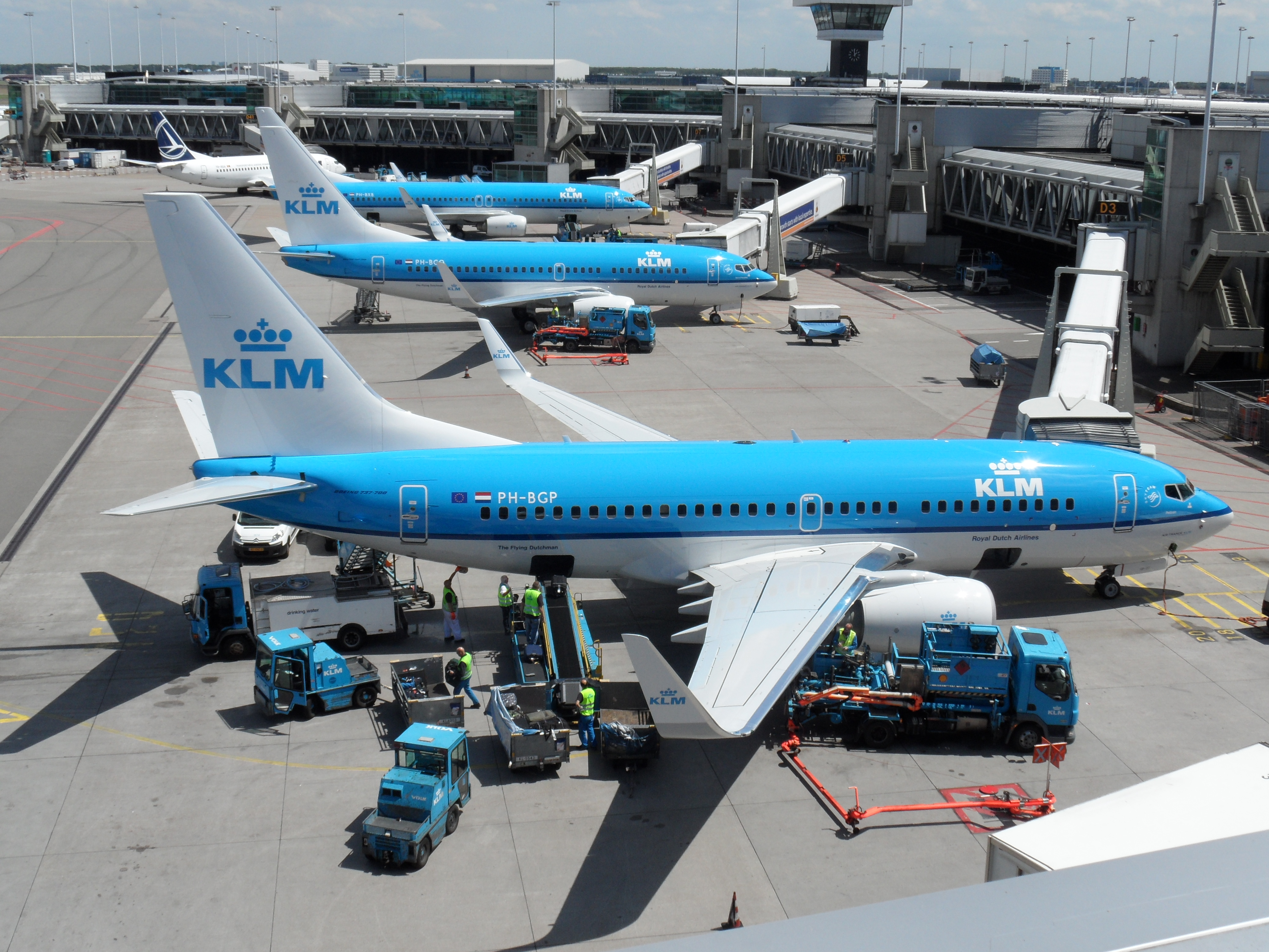 KLM Boeing 737-700, PH-BGP, "Regenwulp" at Schiphol Airport